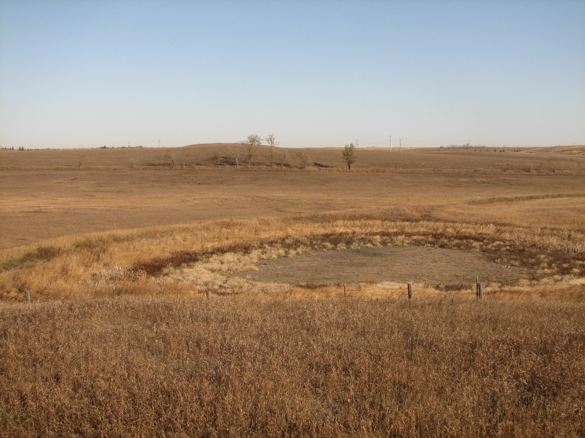 Prairie pothole in North Dakota